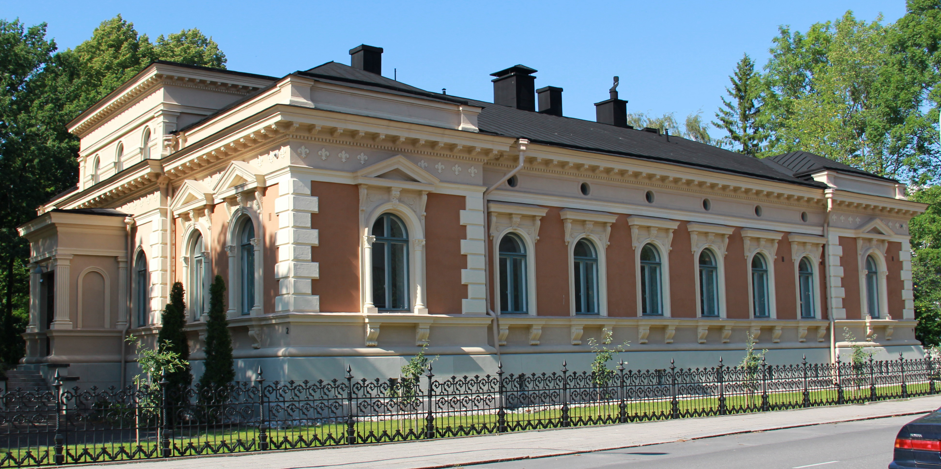 The official residence of the Archbishop of Turku in the Evangelical Lutheran Church of Finland, Turku, Finland. Completed in 1887. Designed by architects Johan Jacob Ahrenberg, Sebastian Gripenberg and Ludvig Isak Lindqvist.